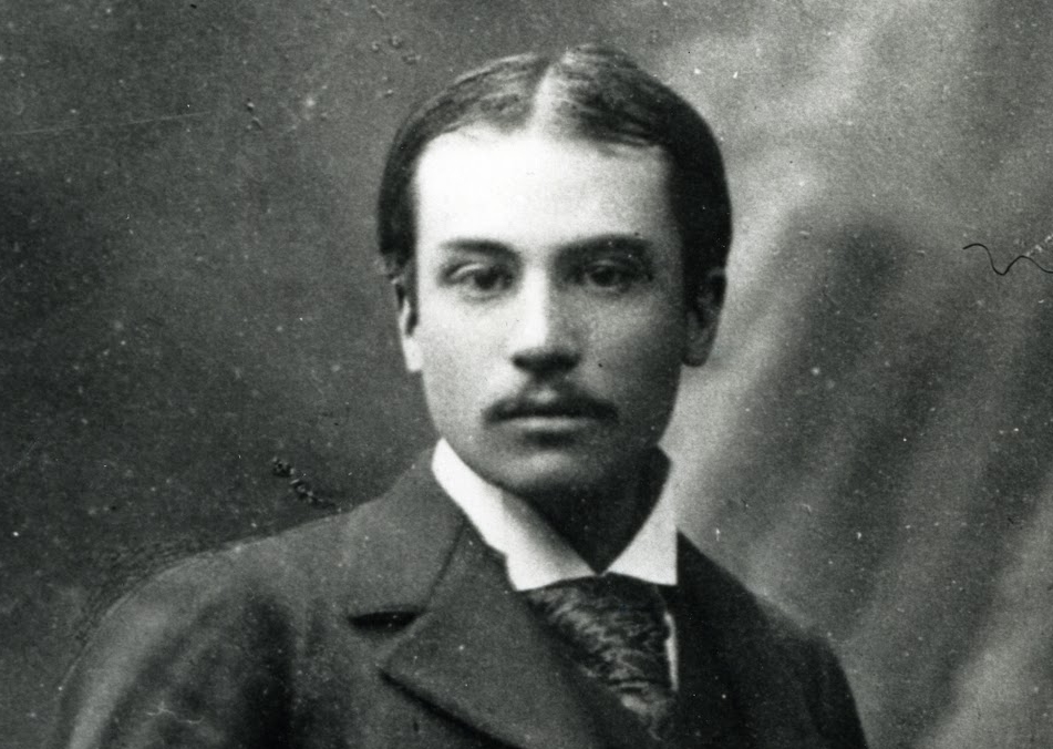 Portrait of french writer Valery Larbaud (1881-1957) circa 1900.